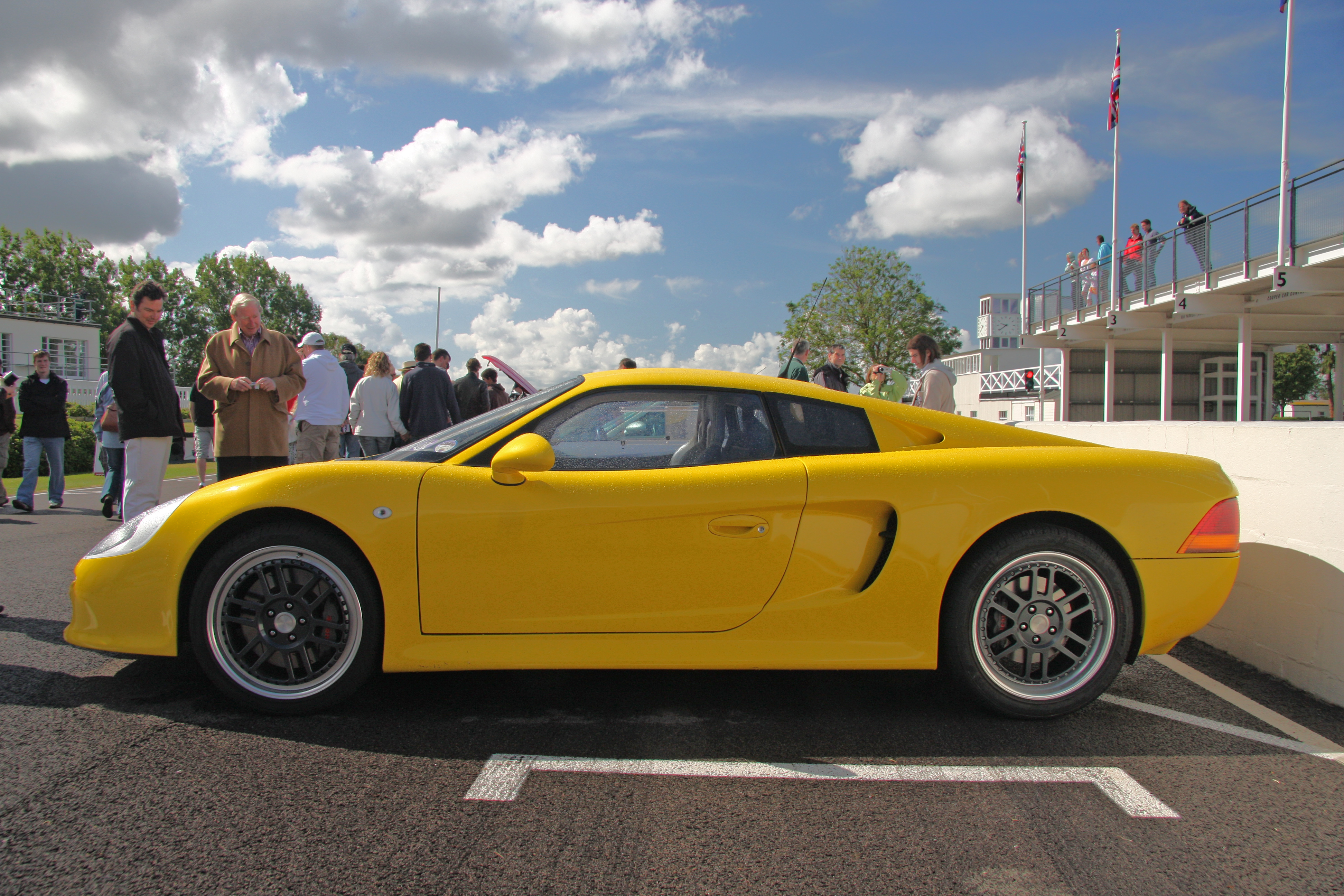 There were only two R45 produced and retained by the company who took over Spectre Supersport Ltd. At present this yellow one is the only road going model. it was decided that they would not be economic to produce but were retained to benchmark other prototypes.The owner of this car bought it about 6 months ago